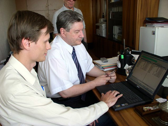 ReactOS project coordinator Alexey Bragin shows ReactOS functionality to Viktor Alksnis The inscription under the photos: Данные фотографии сделаны по моему распоряжению моим помощником Е. Одеровой на мой личный фотоаппарат. Я передаю эти фотографии в общественное достояние и для общественного пользования. These photographs are made by my assistant E. Oderova according my order with my own camera. I donate these photographs into public domain and for public use.